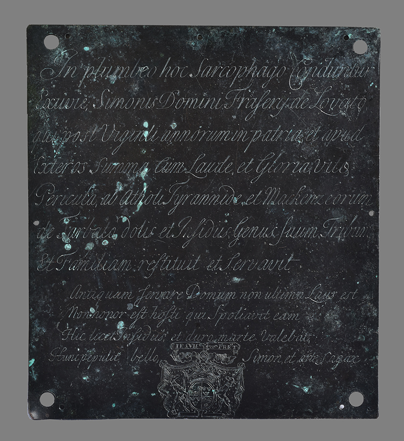 The Coffin name plate of Simon Lord Lovat from Wardlaw Mausoleum